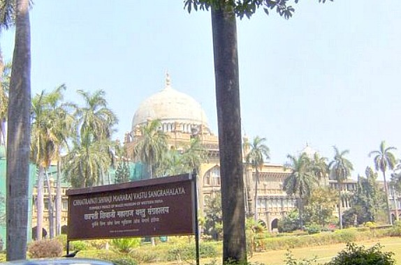 We can see the display board